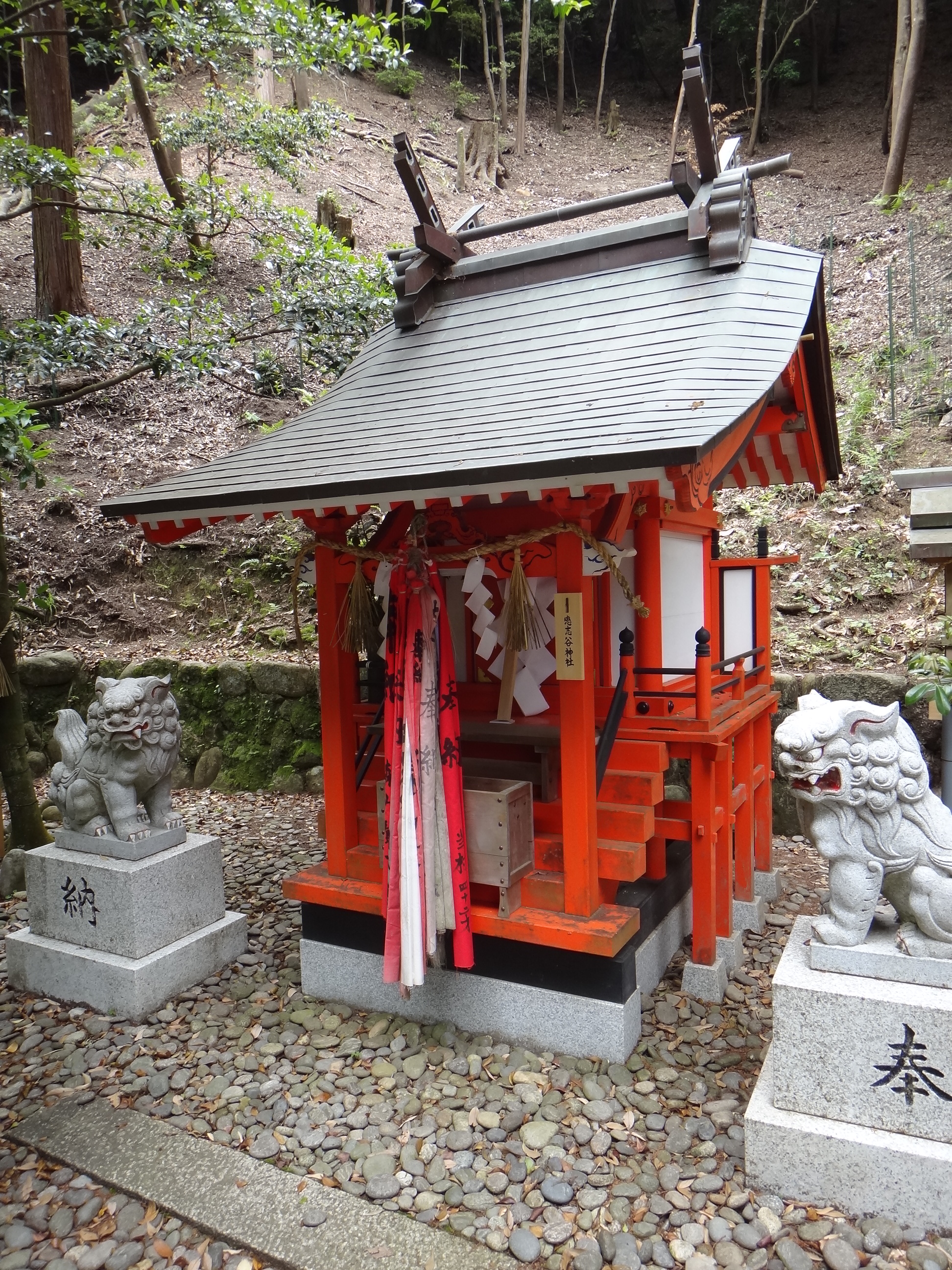 koijidani-jinjya-Shinto shrine